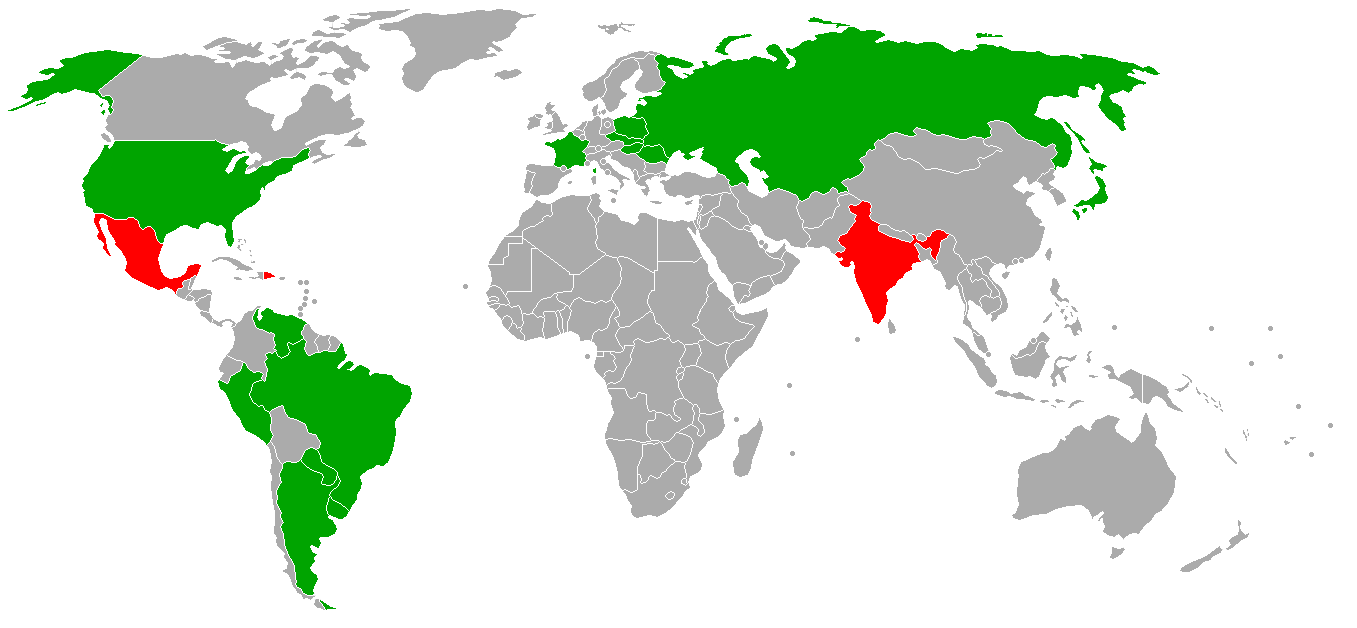 1960 FIVB Men's World Championship